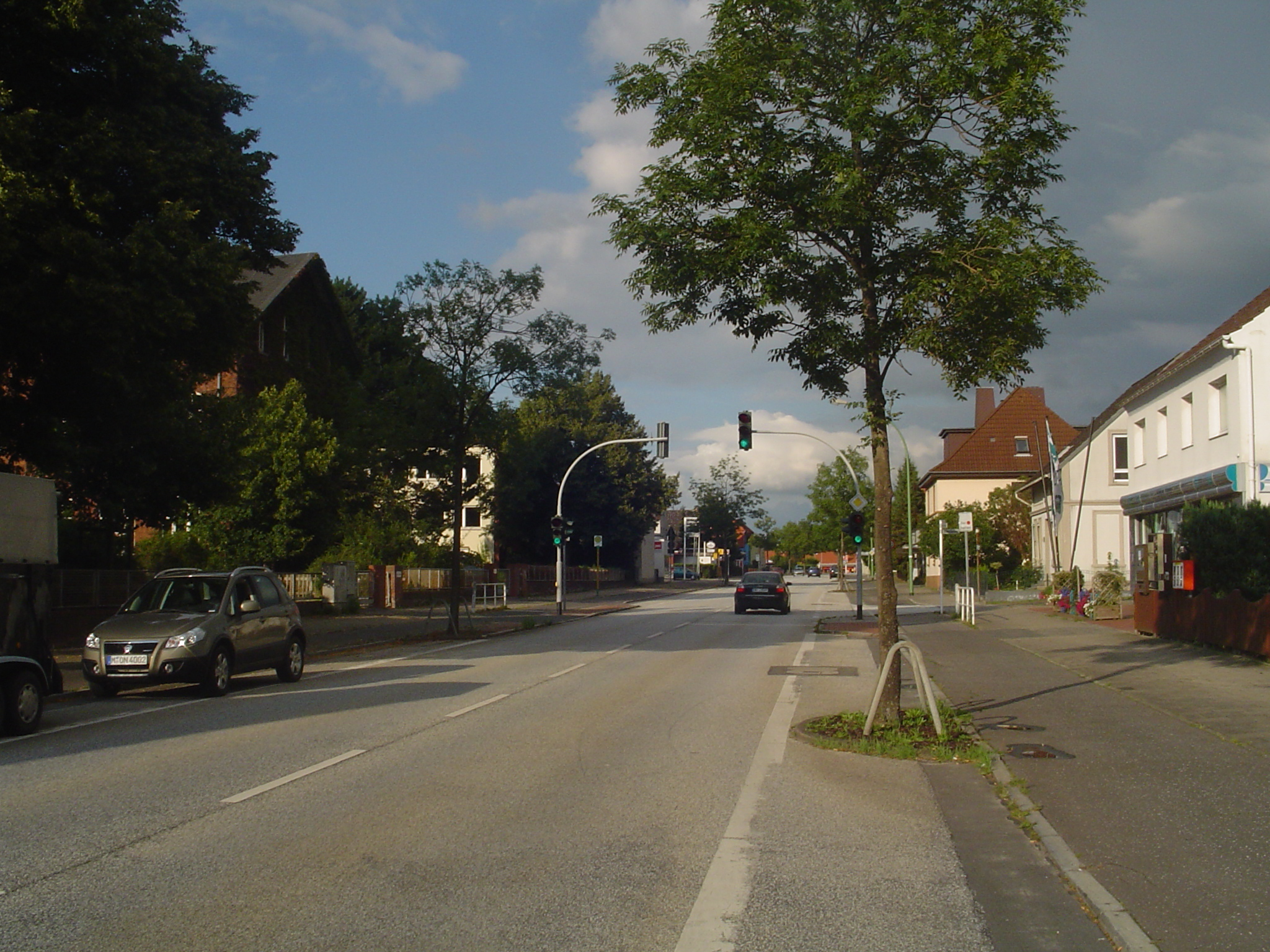 "Schiffdorfer Chaussee", main street in Bremerhaven-Schiffdorferdamm, Germany